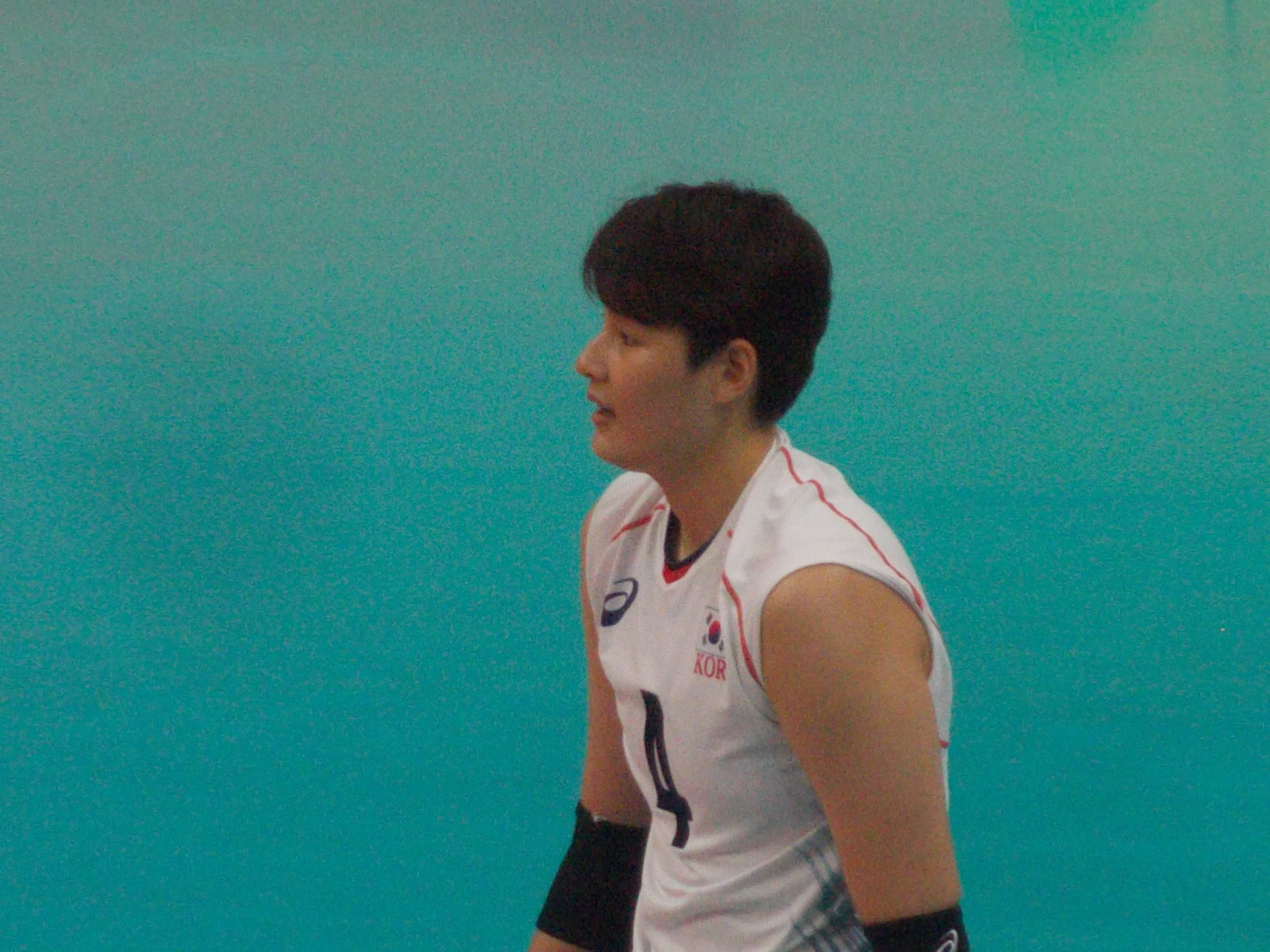 Volleyball at the 2016 Summer Olympics – Women's tournament: South Korea 1x3 Netherlands (19–25, 14–25, 25–23, 20–25).